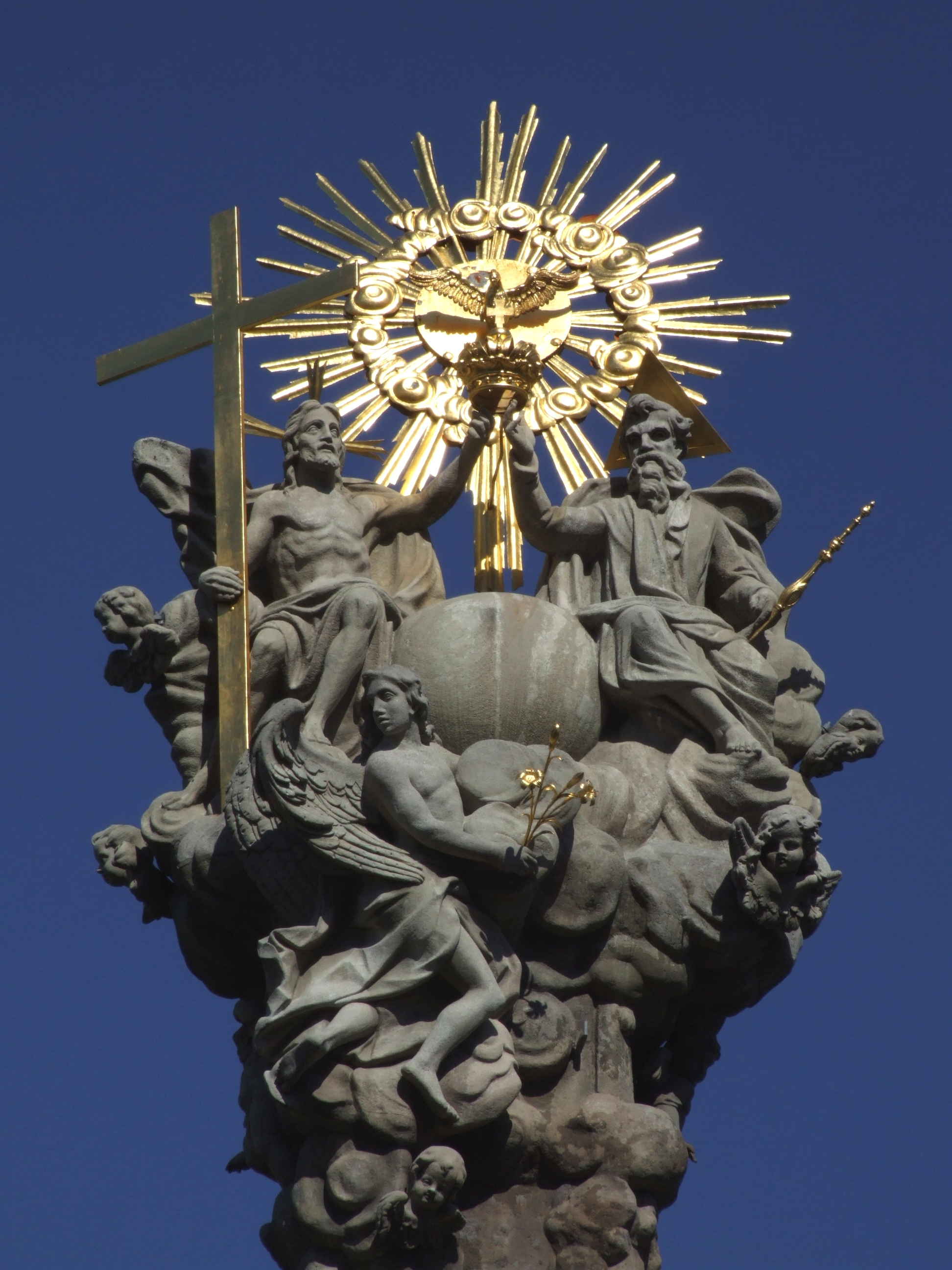 Kremnica (Kremnitz, Körmöcbánya) - part of Plague Column